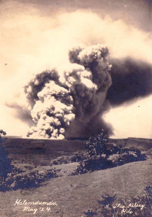 Unknown Date May 1924 Shows ash cloud from Halemaumau crater growth event.